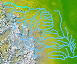 Milk River in Montana and Alberta © 2004 Matthew Trump